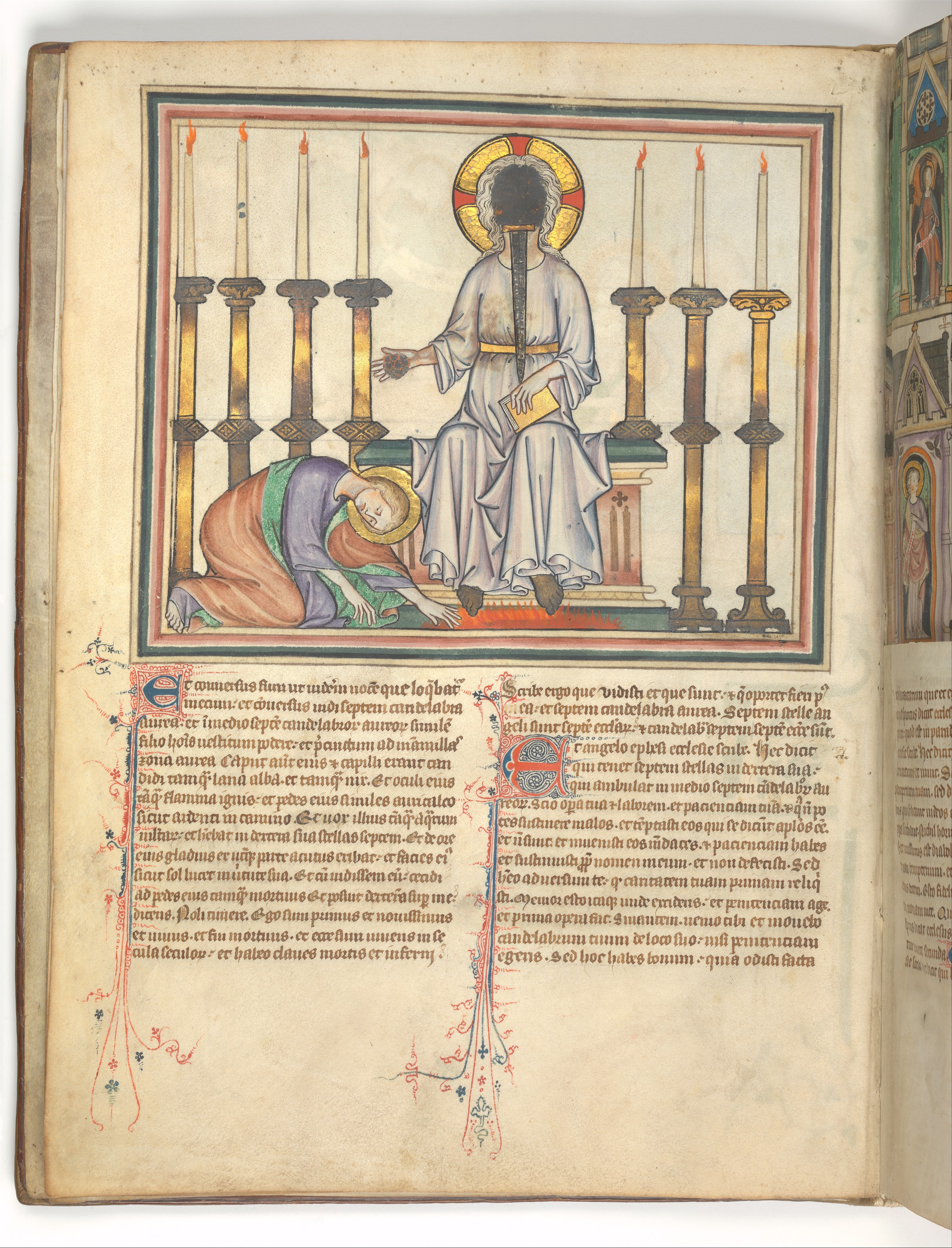 French; Apocalypse; Manuscript; Manuscripts and Illuminations